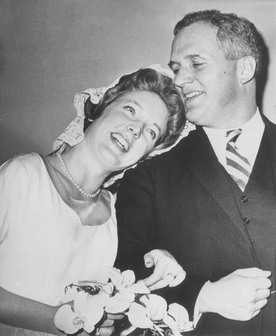 1961 Photo Dr Tenley Albright Gardiner World Figure Skater Champion Sports MA